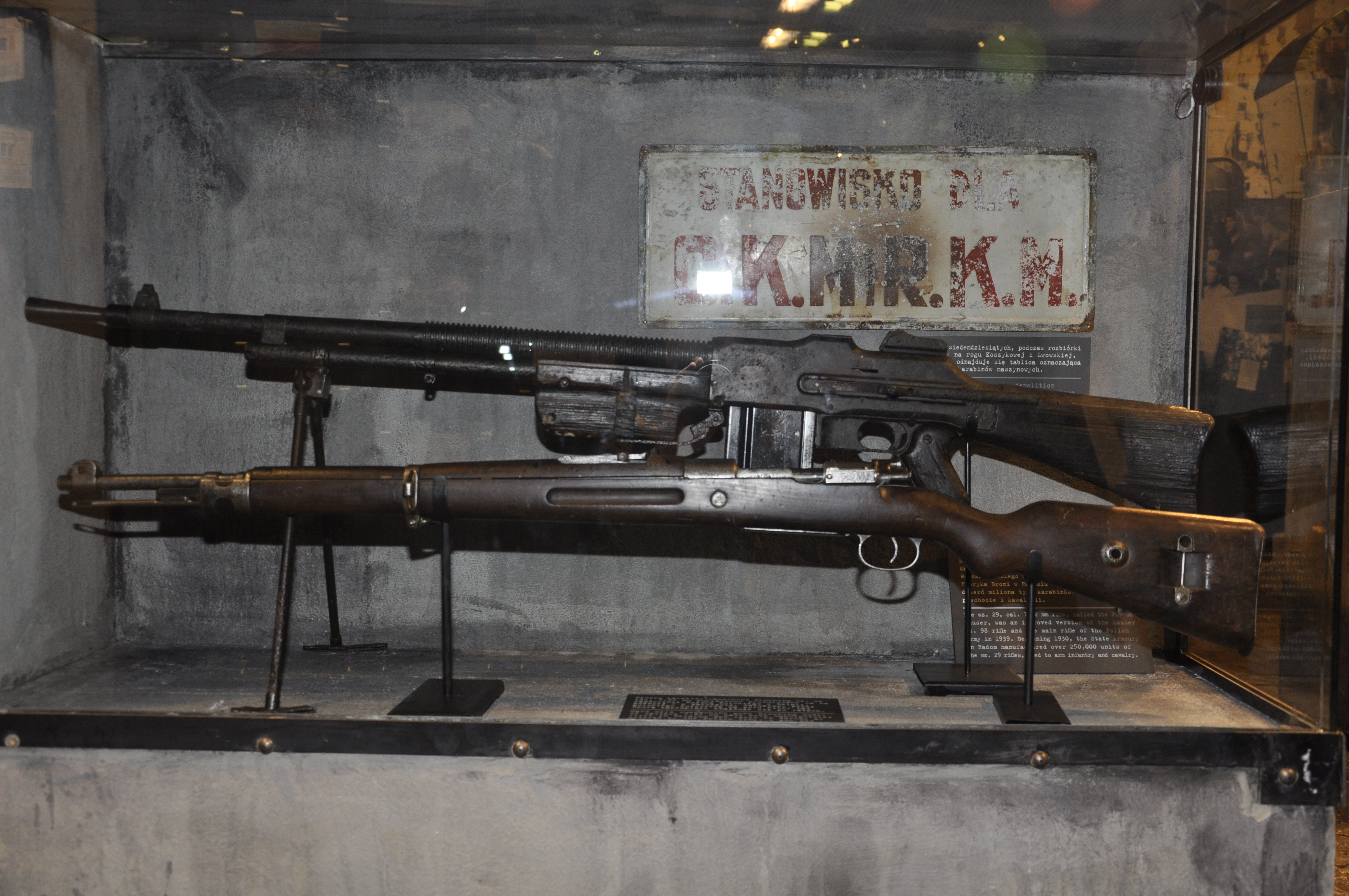 Exhibits at the Warsaw Uprising Museum